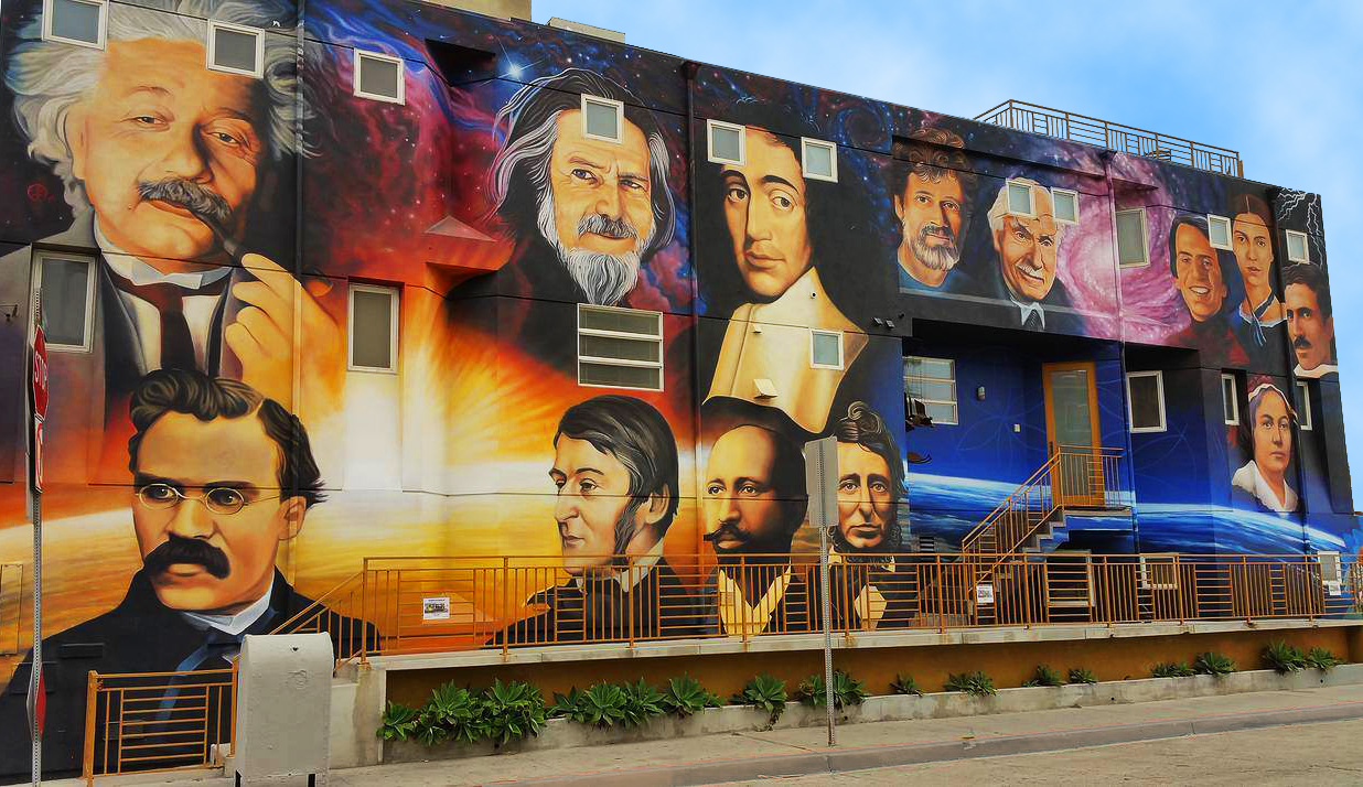 Luminaries of Pantheism, Venice, California. Mural by Levi Ponce, design by Peter Moriarty, Conceived by Perry Rod. Commissioned by The Paradise Project.